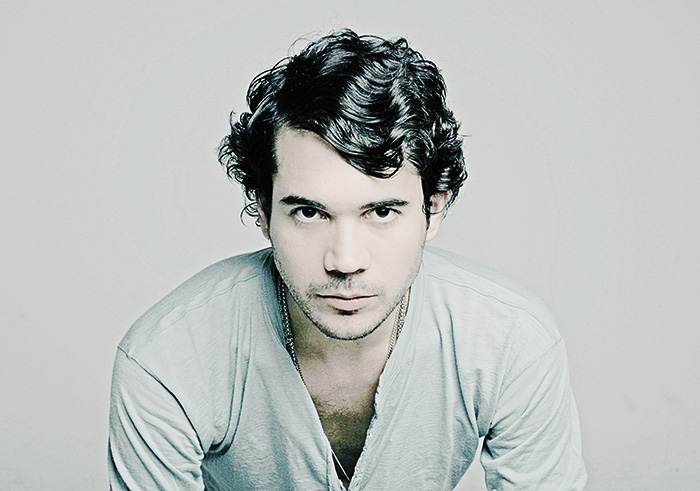 Matthew Dear. Photo by Will Calcutt